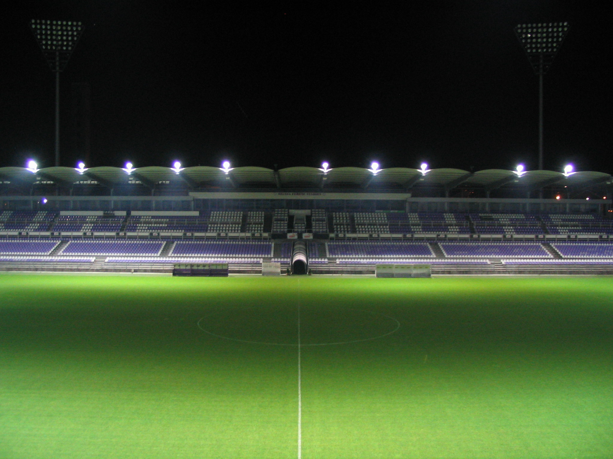 I took this picture on 14th September, 2007